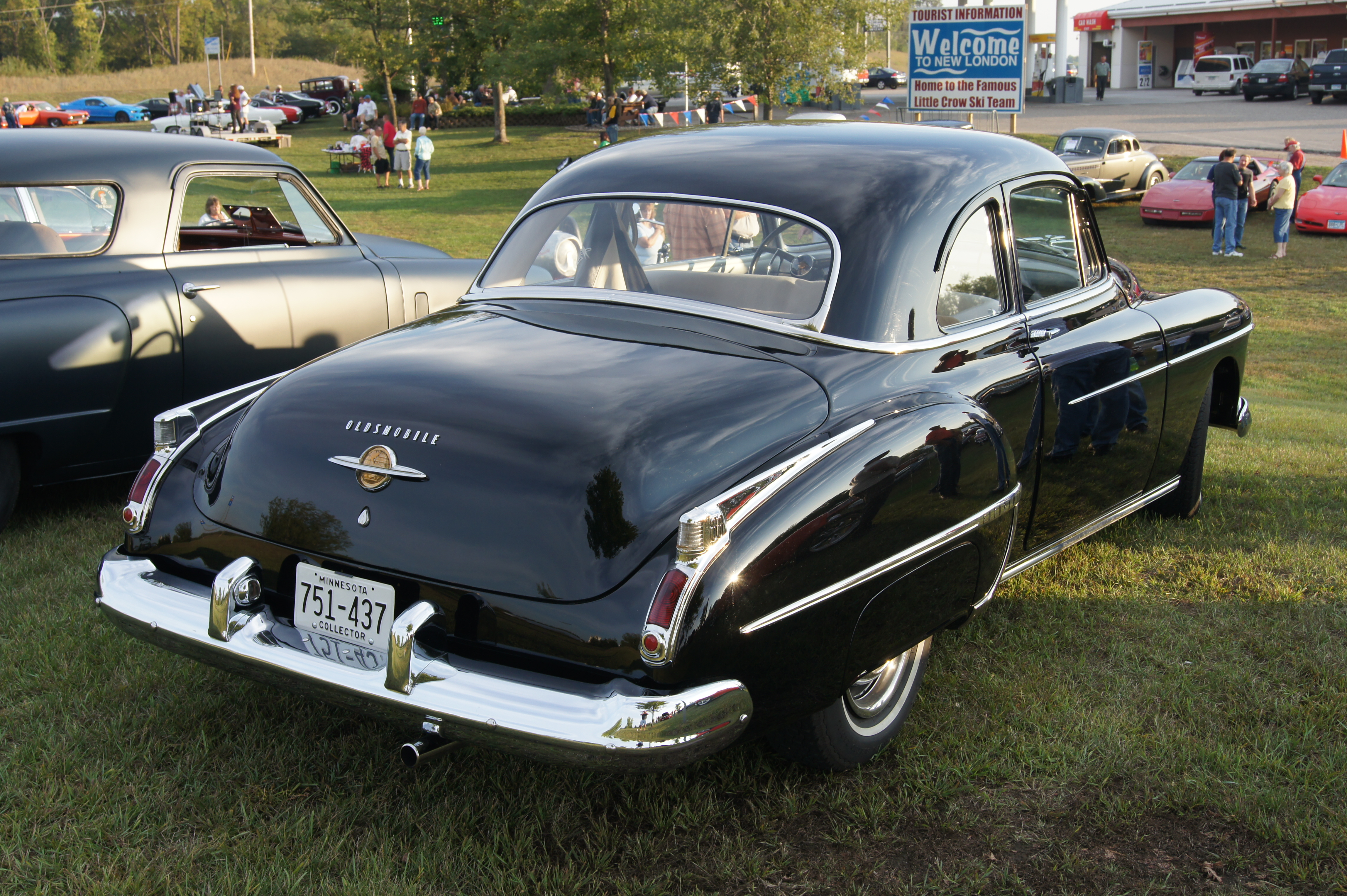 A&W Country Stop Cruise Night September 18th 5pm - Dusk, Door Prizes 7pm New London, Minnesota Click link below for more car pictures